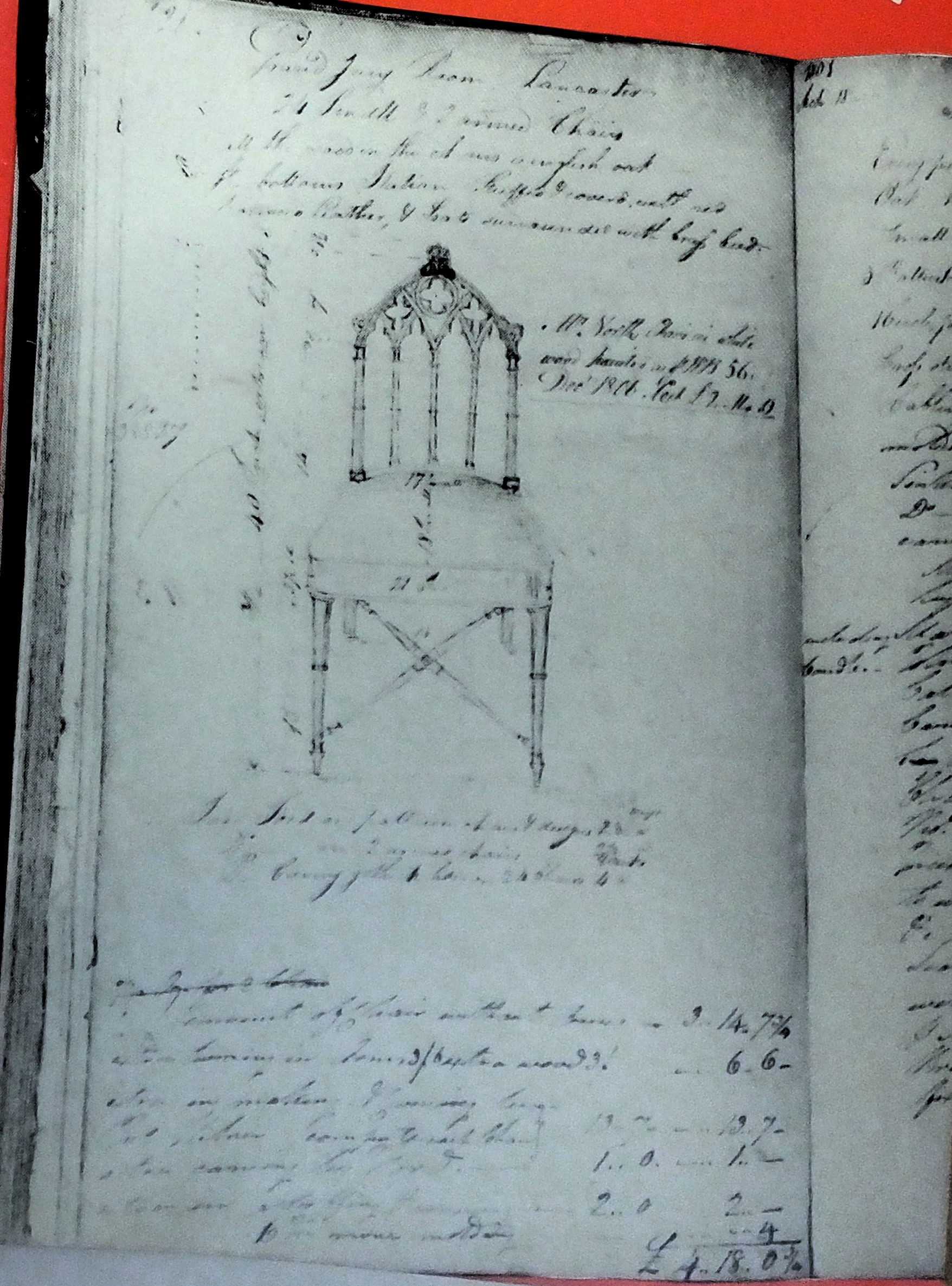 Taken during the tour and editathon at the Judges' Lodgings, Lancaster. Gillows Estimate Book- Grand Jury Room Chair